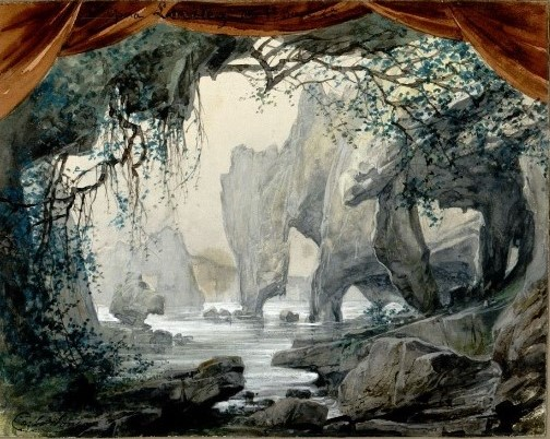 Stages set fpr Act 1, Scene 2 of Alfredo Catalani's opera Loreley. The set is from the 1906 production at La Scala, Milan